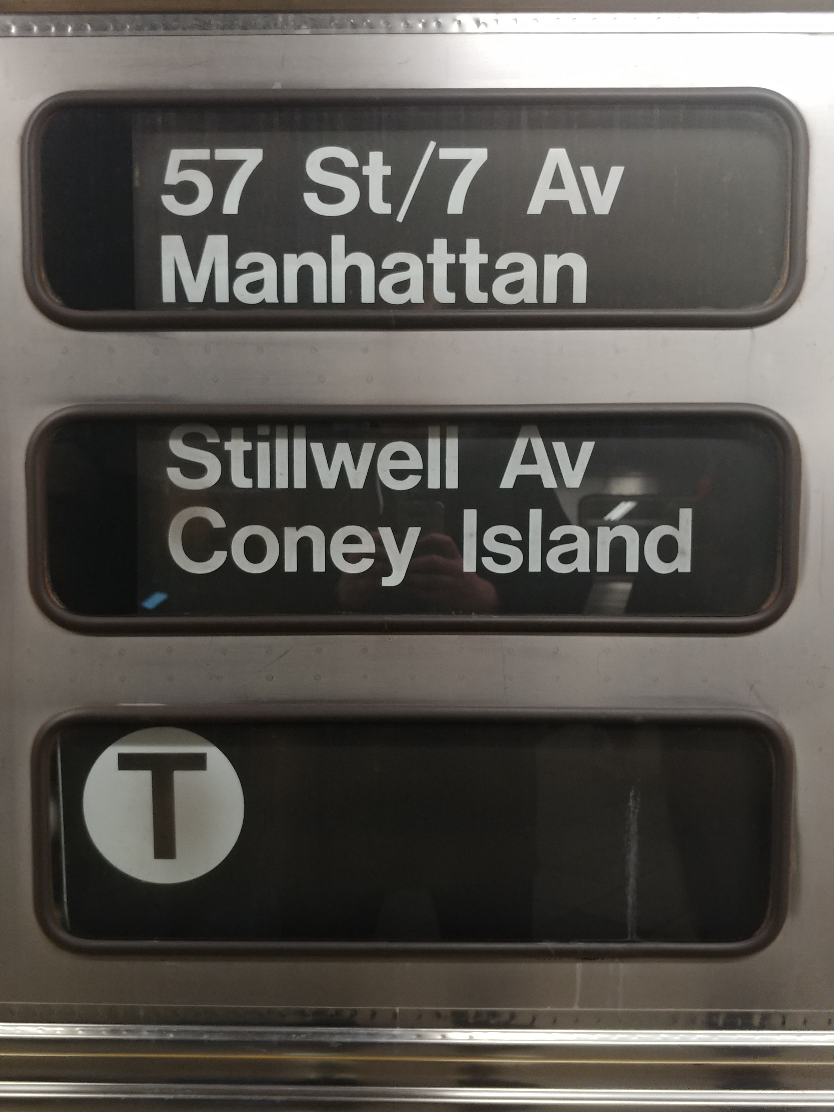 A roll sign on a Budd R32 train car from the New York MTA displaying the terminals and bullet from the T line.